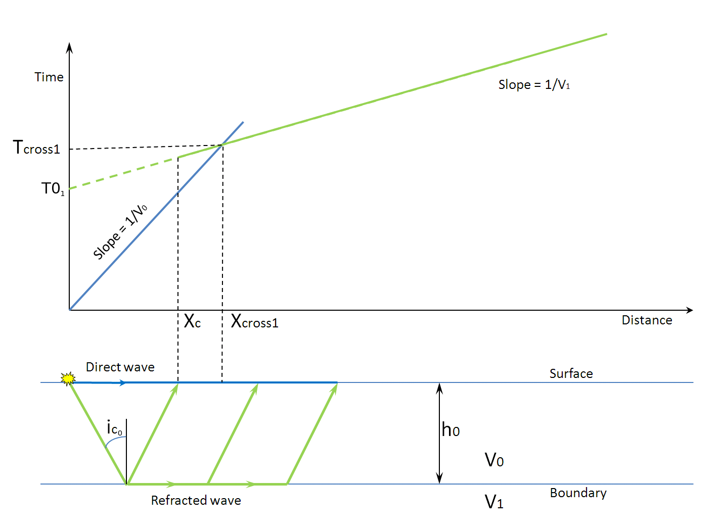 Refraction 2 flat layers